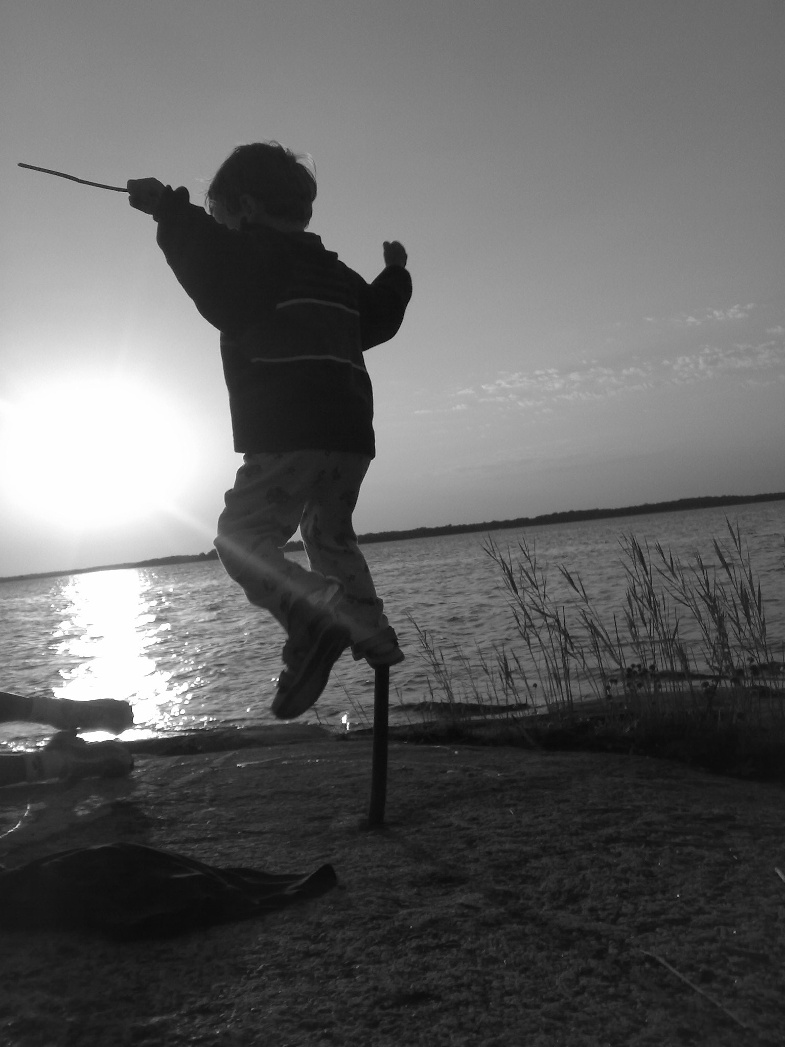 Child playing